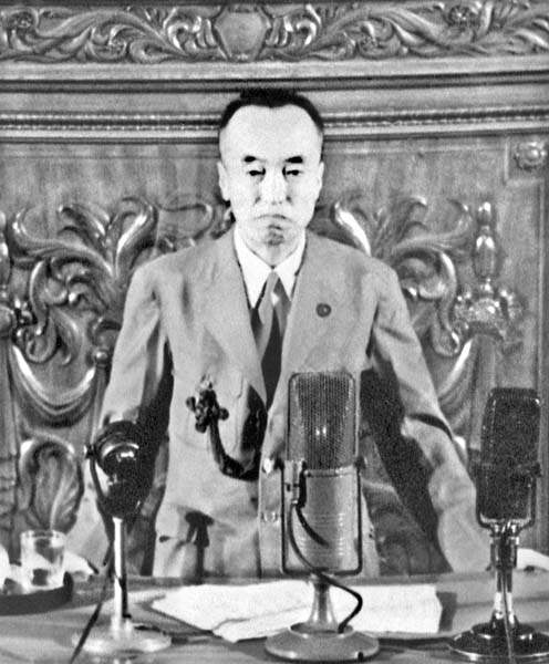 Prime Minister Prince Higashikuni delivers a Policy Speech to the 88th Extraordinary Session of the Imperial Diet at the Plenary Session of the House of Representatives in Tokyo on 5 September 1945